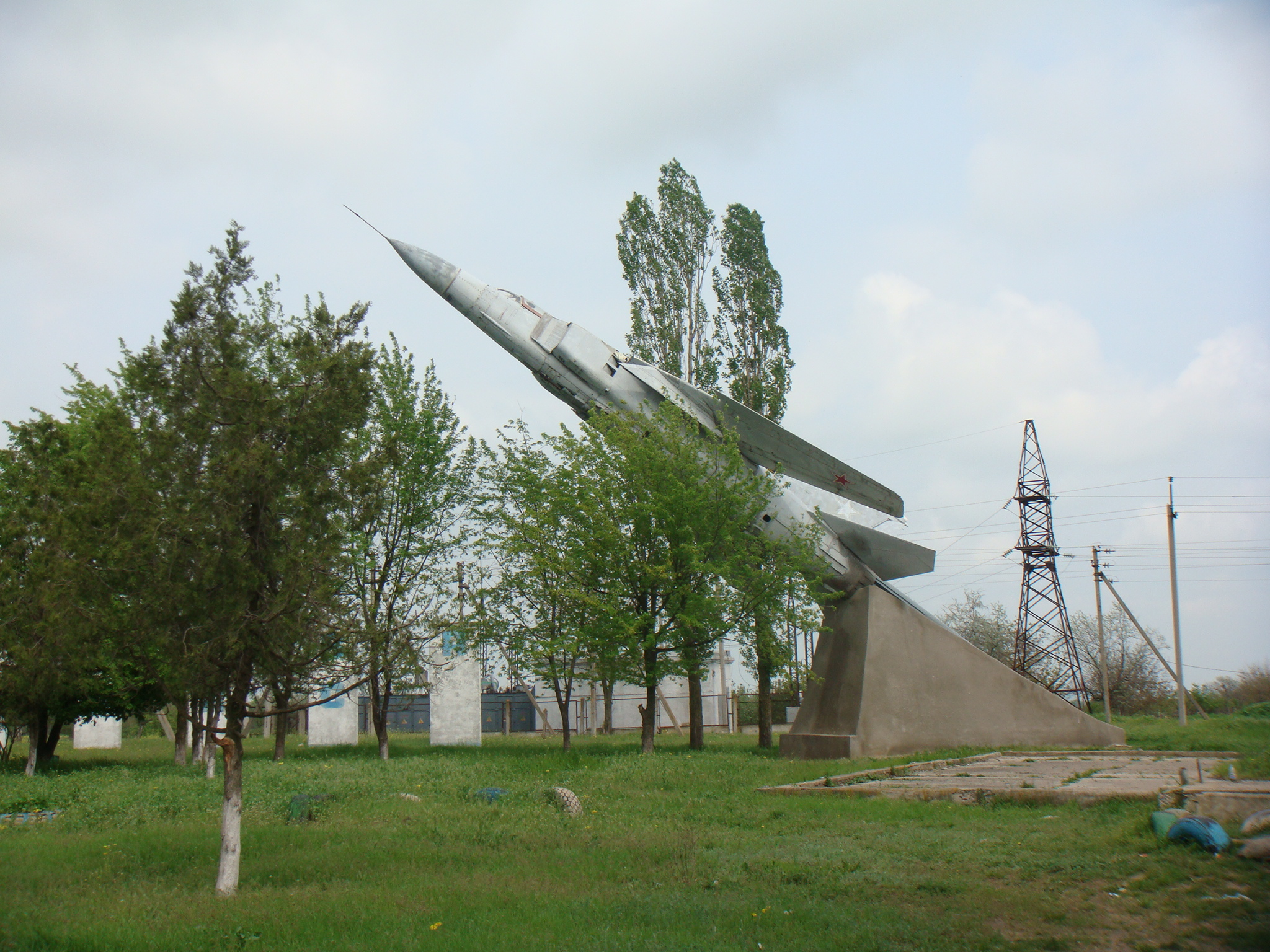 MiG-23, Limanskoe, Ukraine